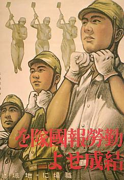 Japanese Poster(During World War II) "Organize Labor Service Corps!"